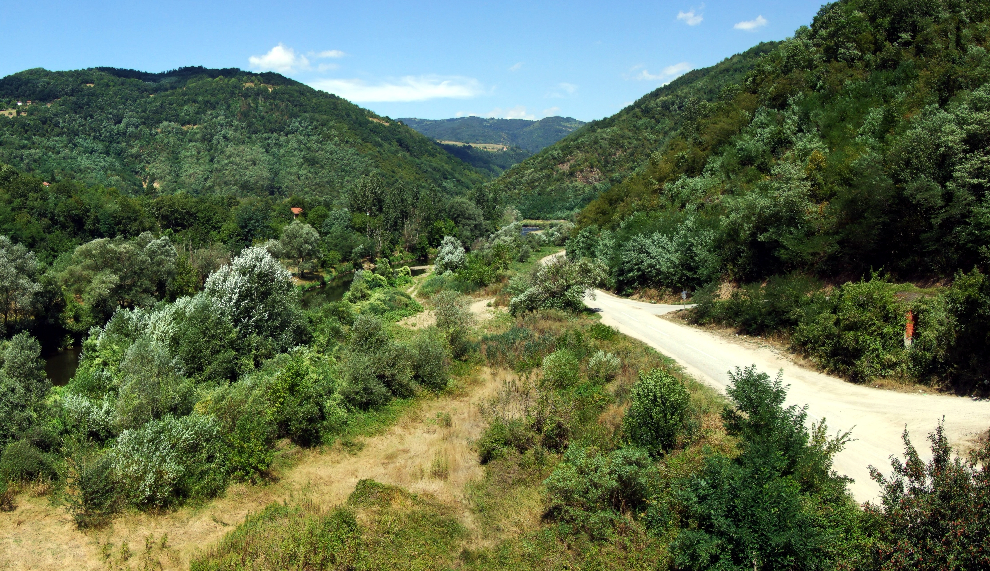 South Morava valley near road nr 1 (Serbia)